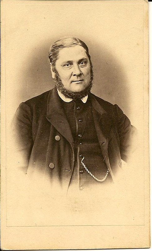 Swedish politician from late nineteenth century